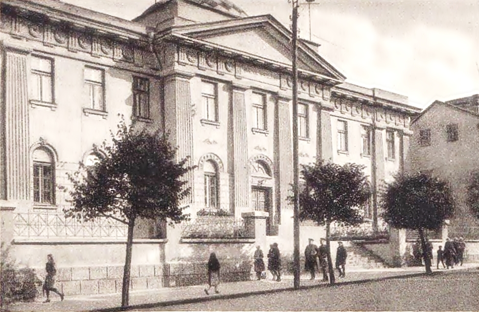 Bank of Poland Building, Radom, Poland (1930s)